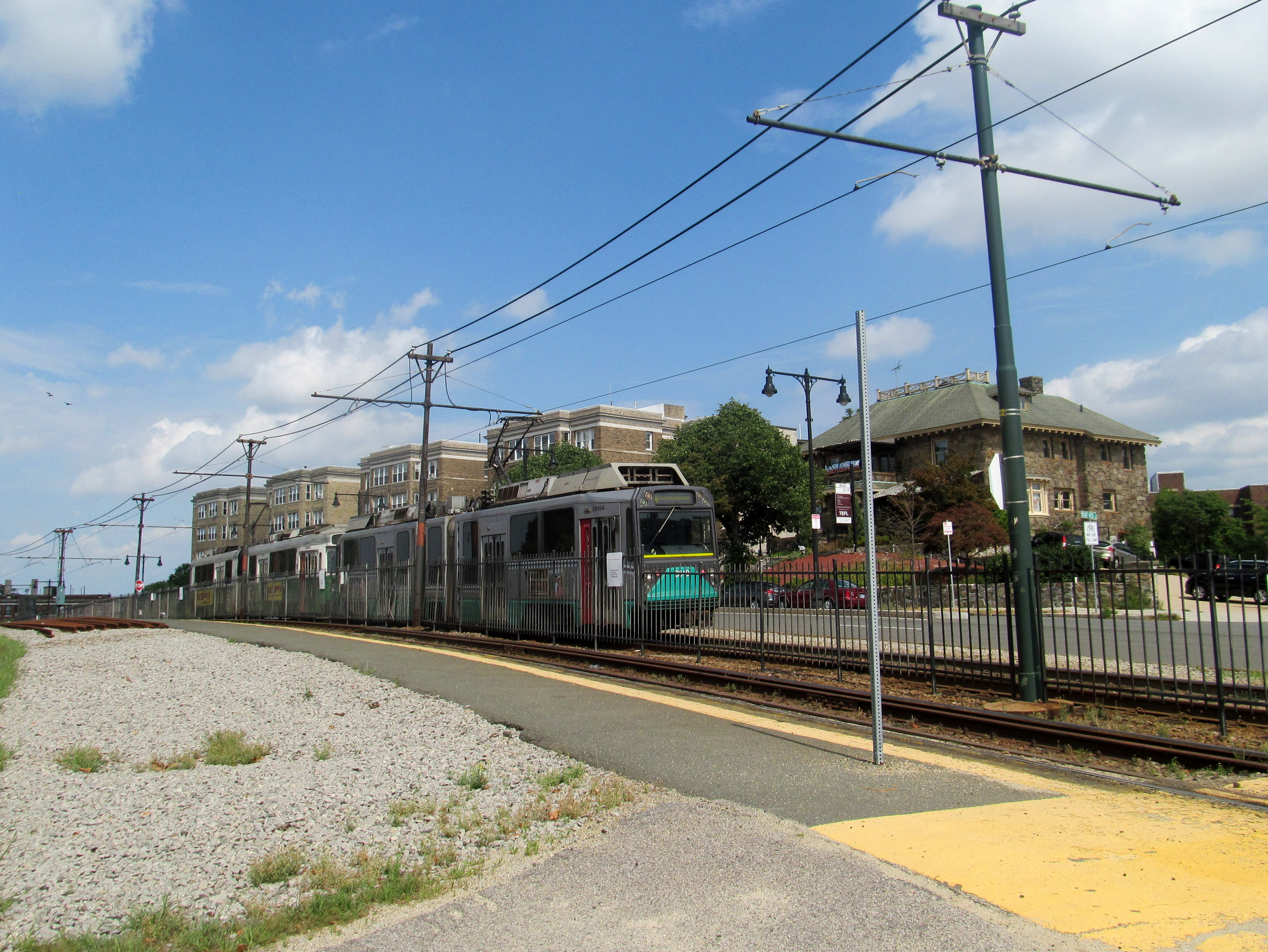 An inbound train passes the former Mount Hood Road station in August 2016